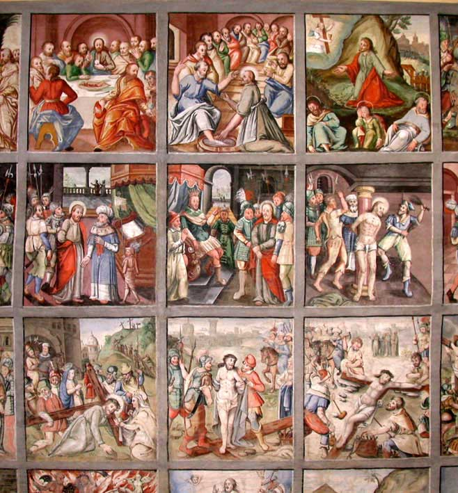 Lenten Cloth in the Museum Gherdëina